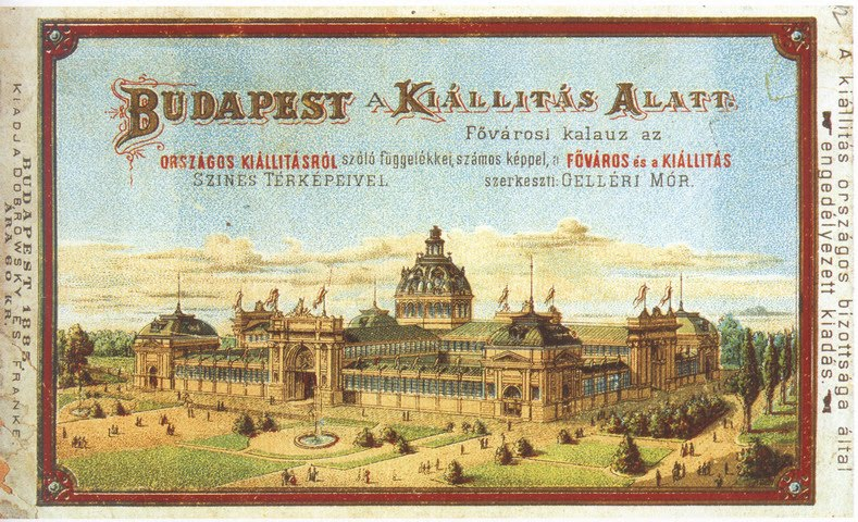 Information booklet on the Országos Általános Kiállítás (National General Exhibition) in Budapest, 1885. Central item is the Industry Hall (Iparcsarnok).